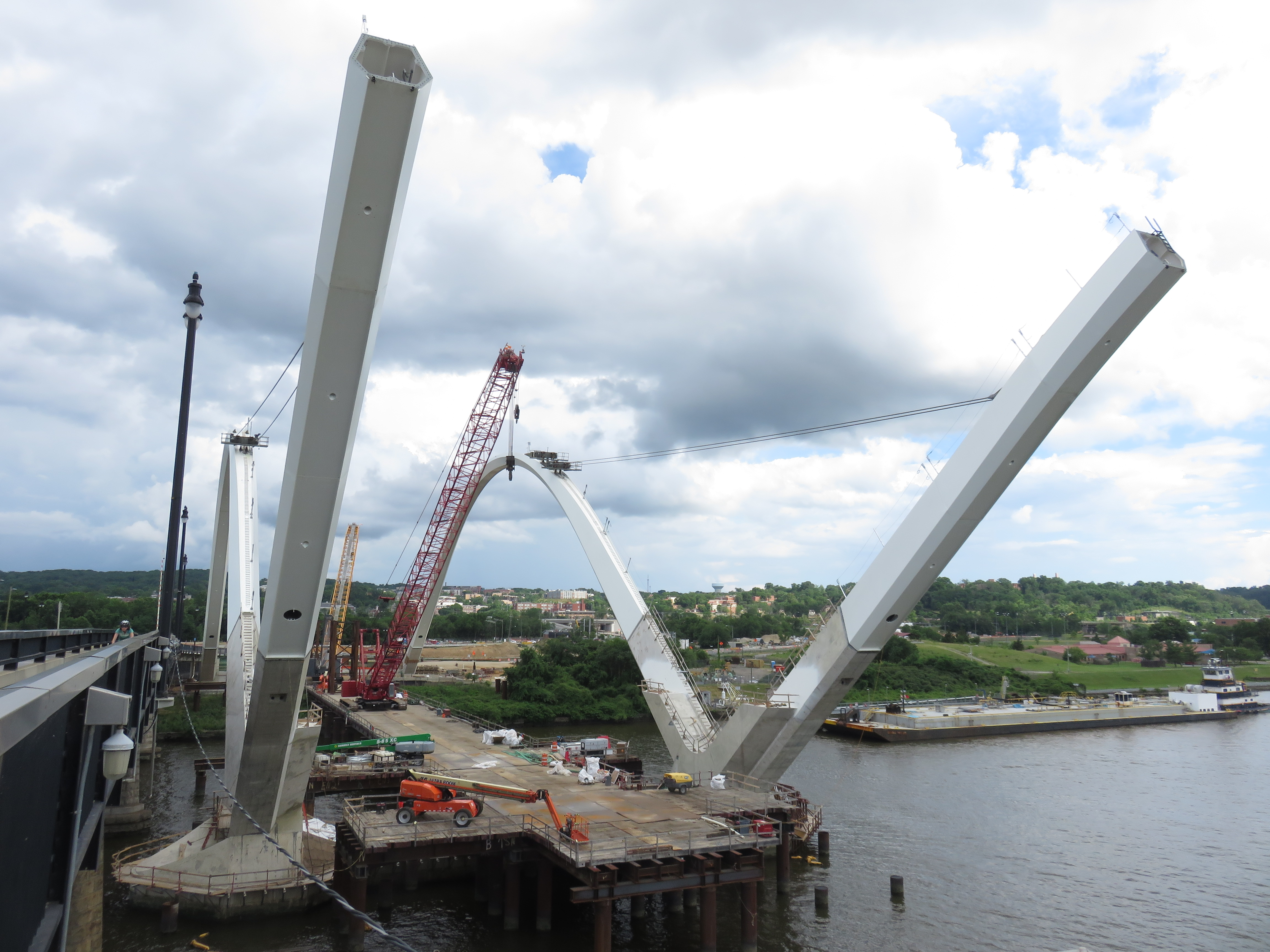 Construction of the new Frederick Douglass Memorial Bridge alongside the old bridge in Washington, D.C. in 2020